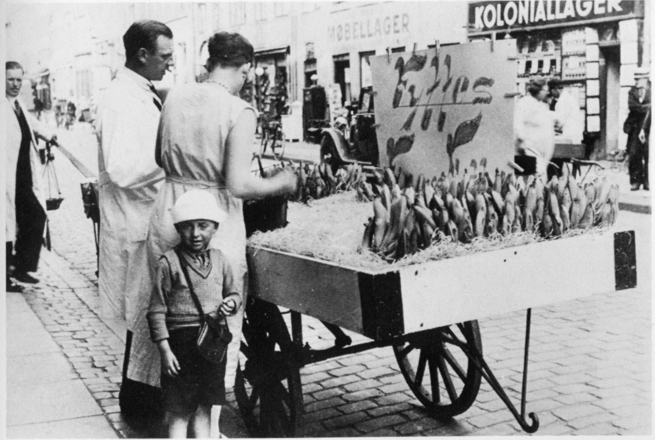 Fyffes Bananas sold on the street in Denmark